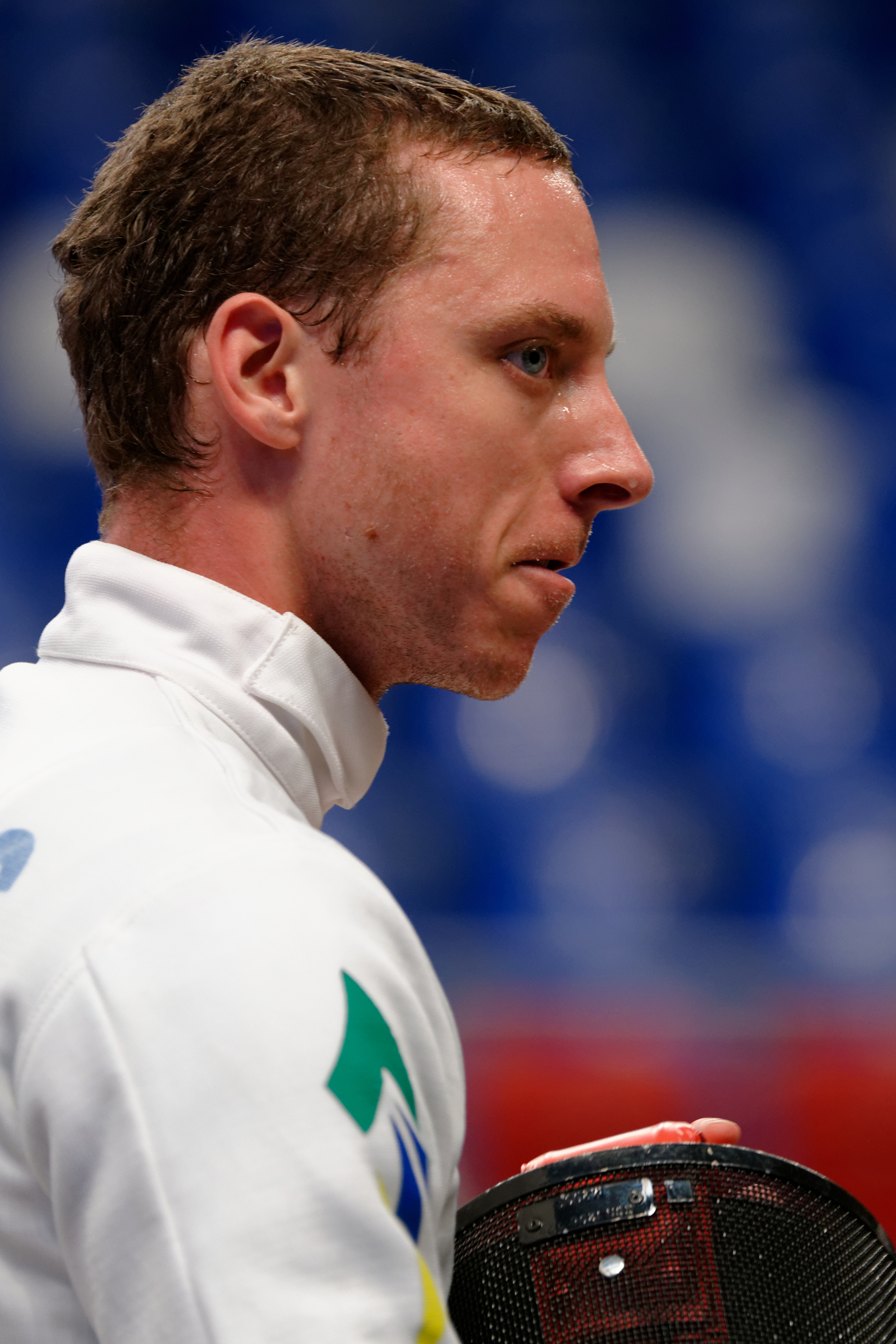 Brazil's Athos Schwantes during his T128 match against Bas Verwijlen of the Netherlands at the 2014 Challenge RFF-Trophée Monal, a men's épée World Cup event, on 2 May 2014.